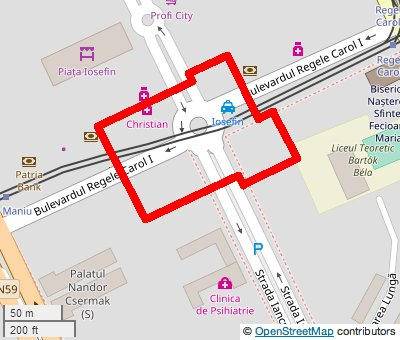 Map of heritage site "Ansamblul urban IV", Timișoara, Romania